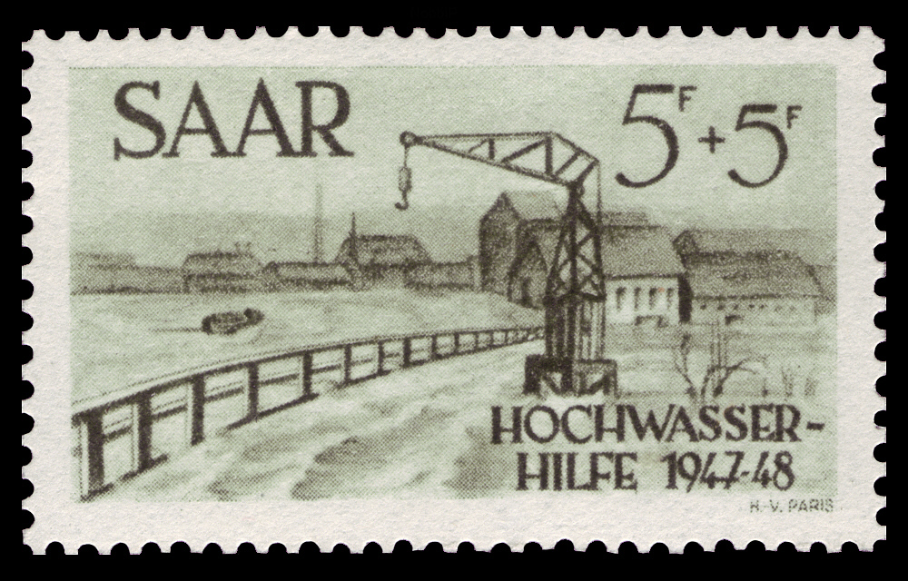 Help for victim of the flood